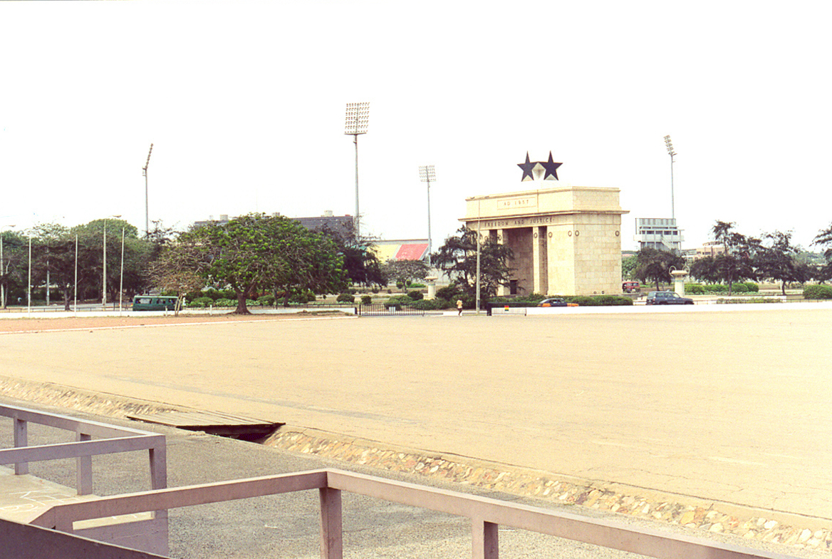 The Black Star Arch taken from the Independance Square. In the Background the biggest football stadium in Accra an the whole Ghana can bee seen.